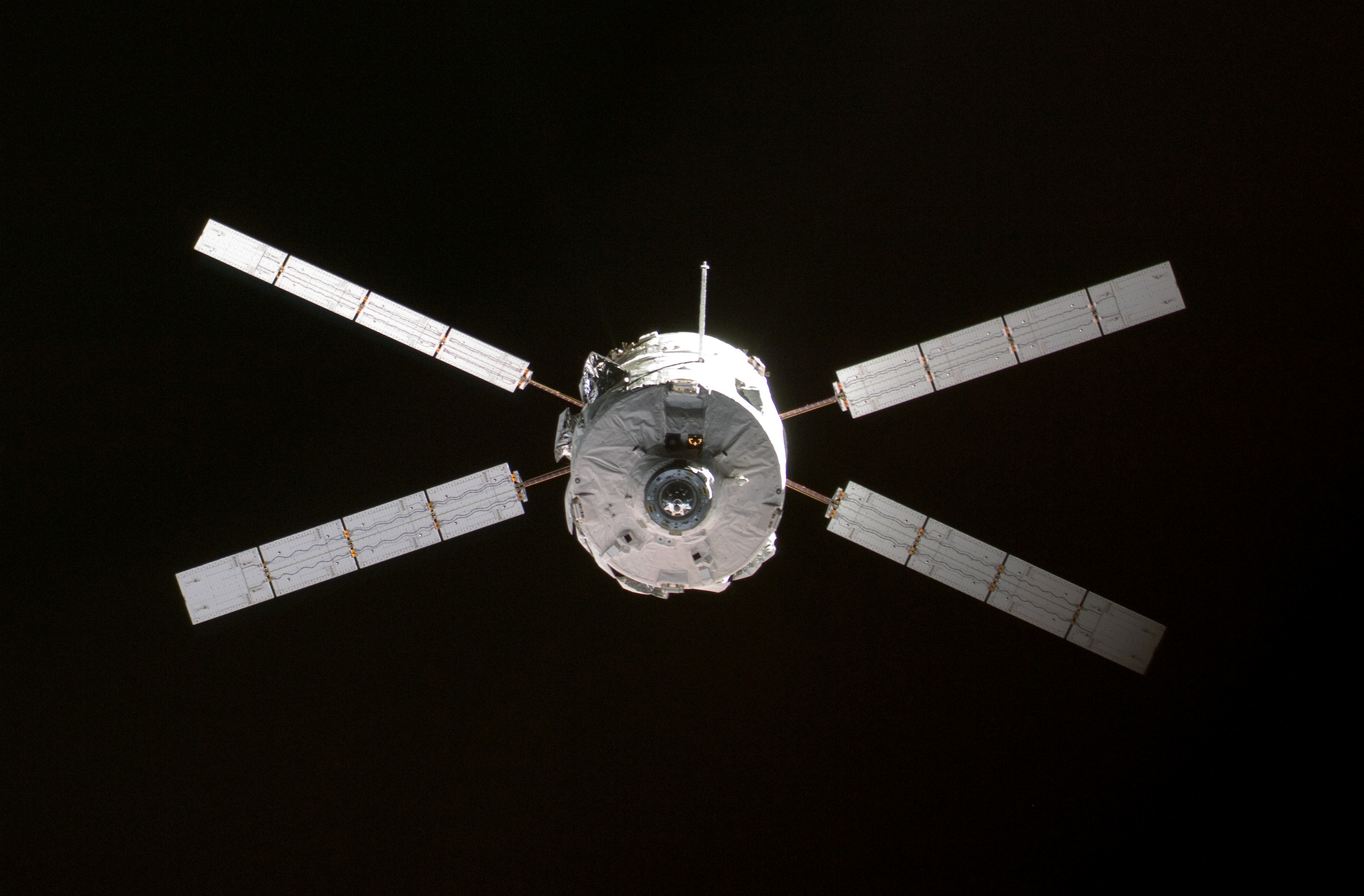 Backdropped by the blackness of space, the Jules Verne Automated Transfer Vehicle (ATV) approaches the International Space Station on Monday, March 31, 2008, for its "Demo Day 2" practice maneuvers. It moved to within 36 feet of the Zvezda Service Module in a rehearsal for docking on Thursday.